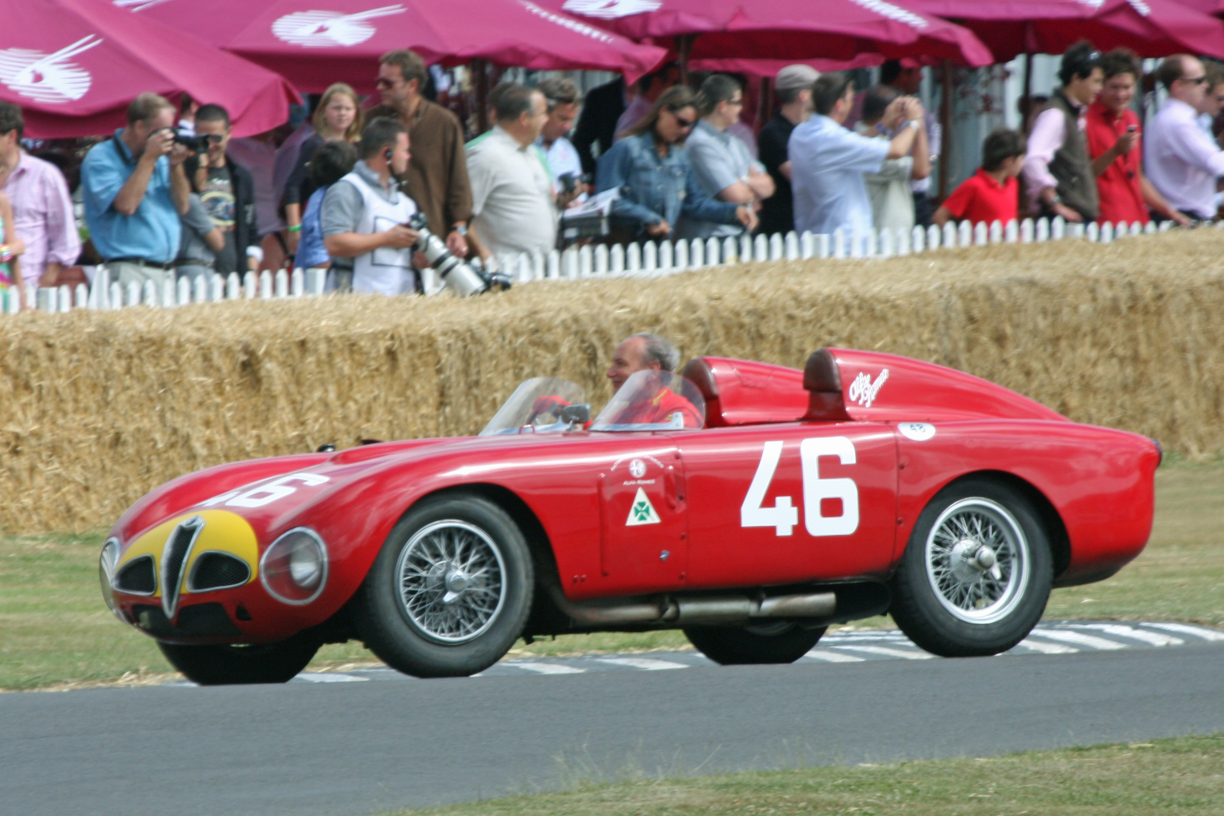 6C 3000 CM at Goodwood 2009, Museo Storico car, Juan-Manuel Fangio/second place in the 1953 Mille Miglia (in coupe form)